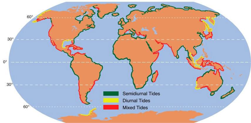 A schematic showing the diurnal, semidiurnal and mixed types. The image was made by Michael Pidwirny of the Irving K. Barber School of Arts and Sciences, University of British Columbia, Okanagan